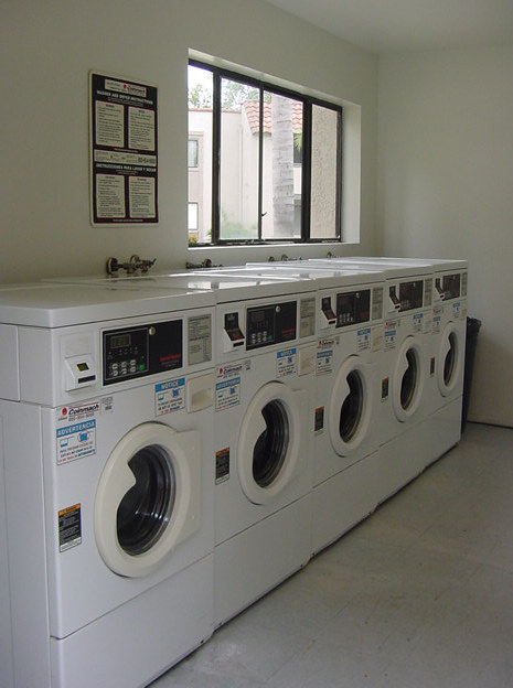 Laundromat Laundromat -- GFDL image taken by me (Catherine)